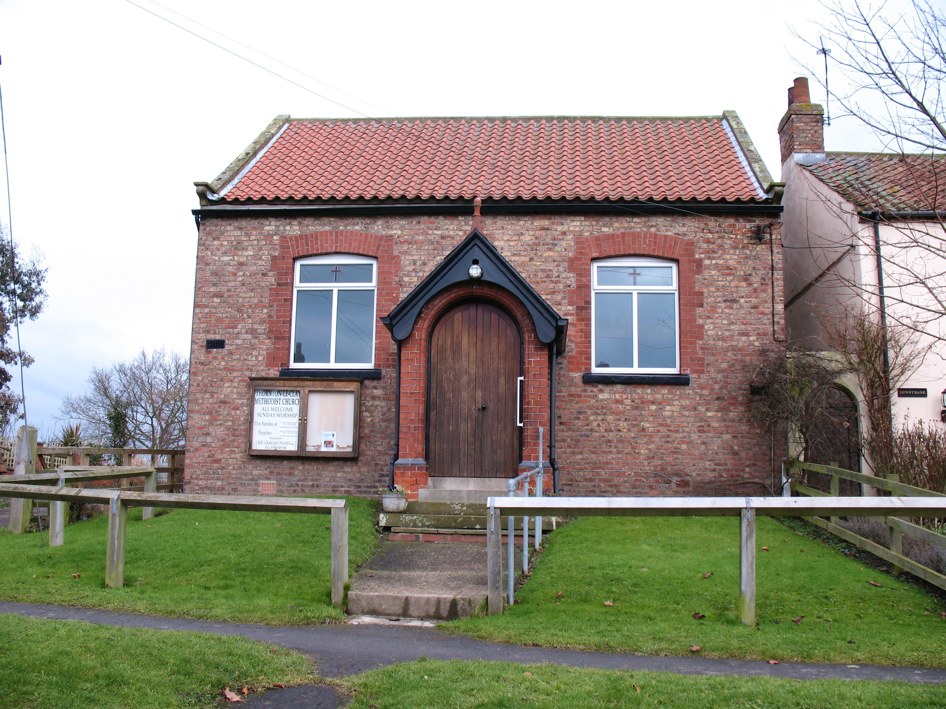 Methodist chapel, Thornton le Clay The only place of worship in this small village. A simple building with no clues as to its age, although it looks late Victorian.